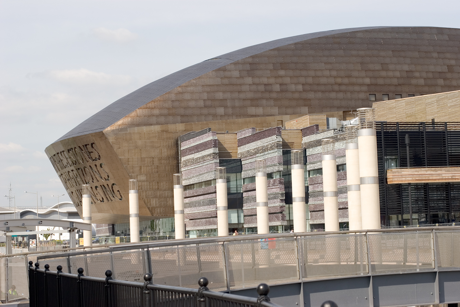 Wales Millennium Centre, Cardiff, Wales, UK